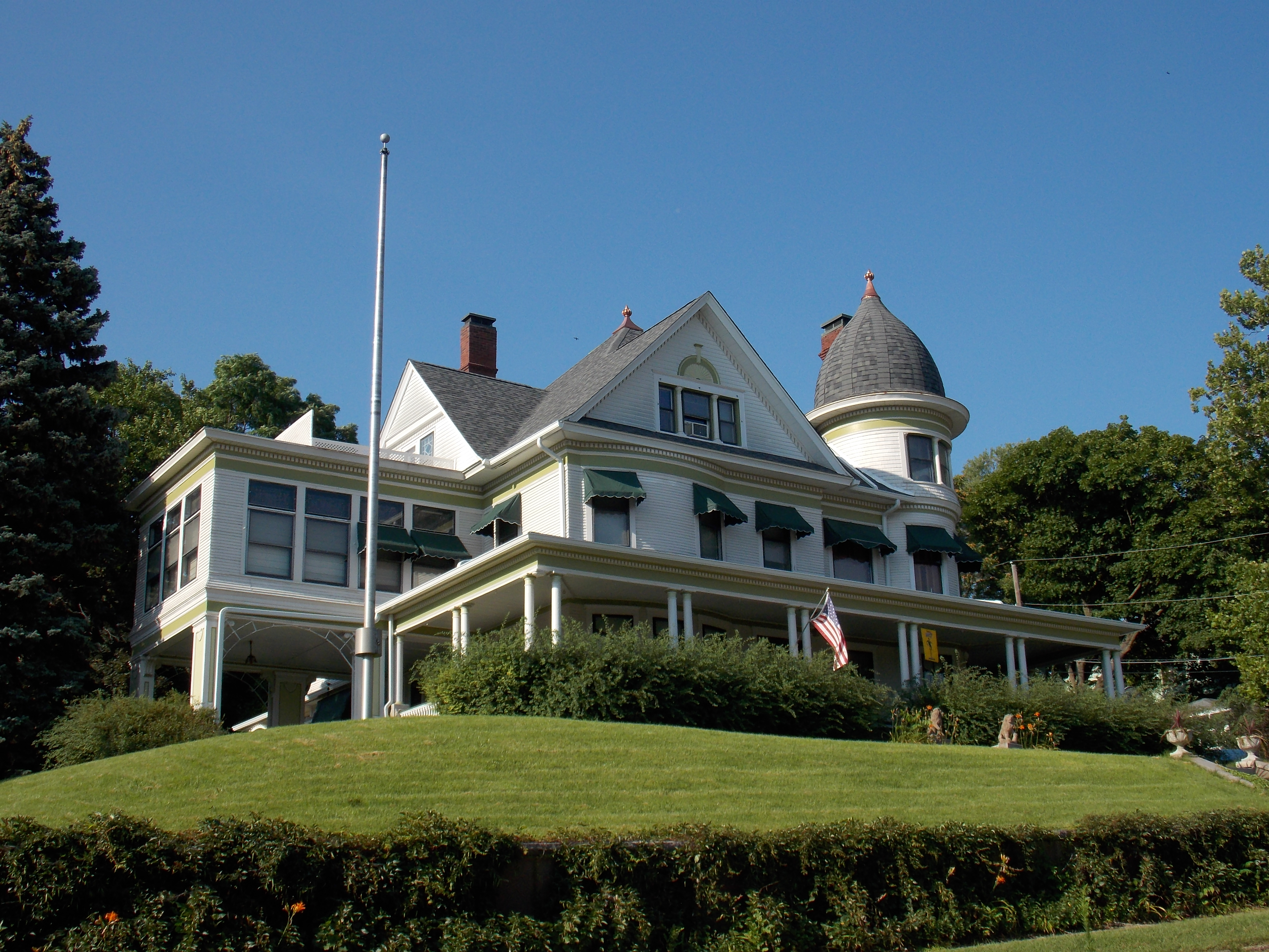 The Jules deLescaille House is a contributing property in the Prospect Park Historic District in Davenport, Iowa.